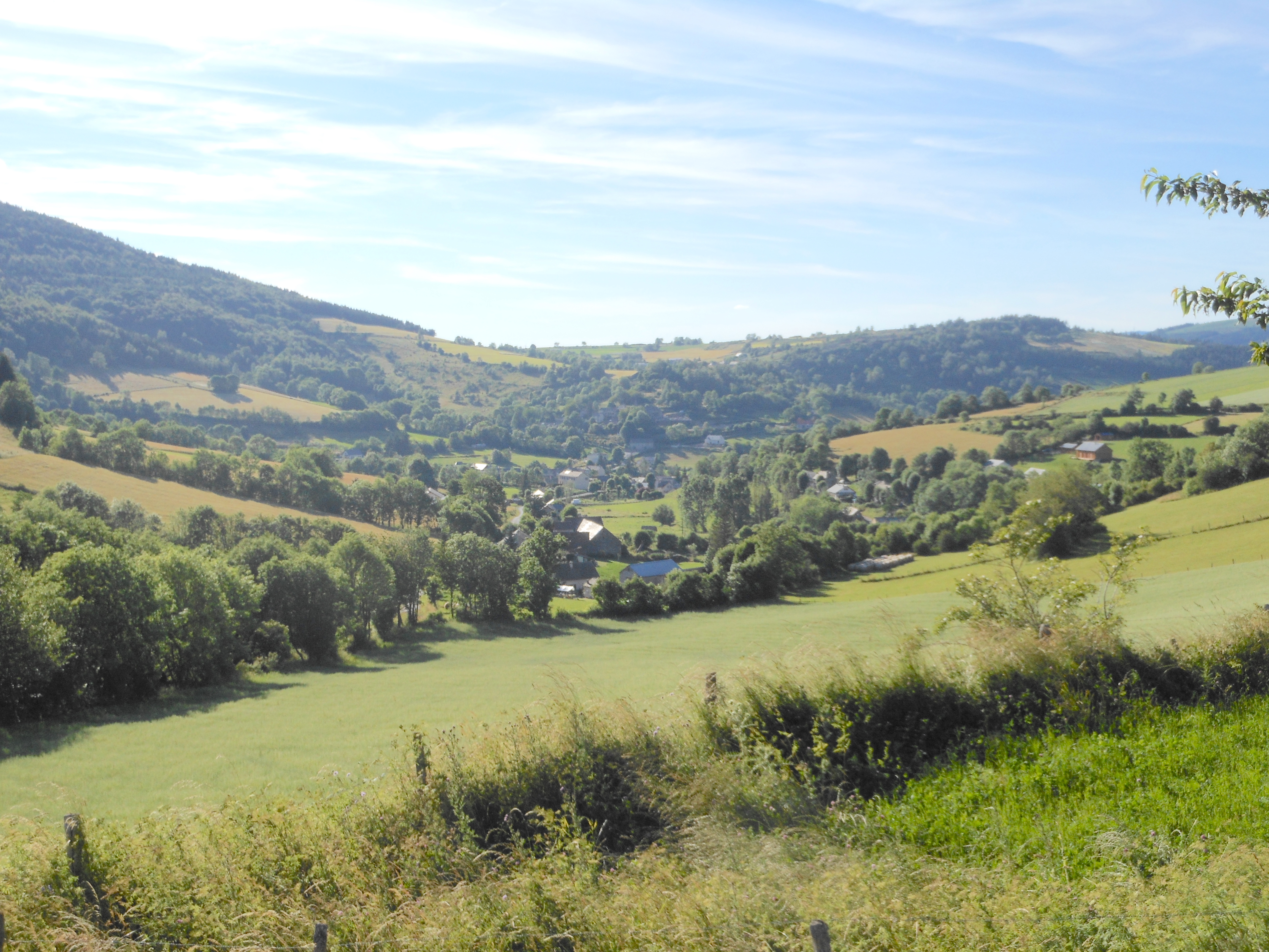 General view of Mas d'Orcières.